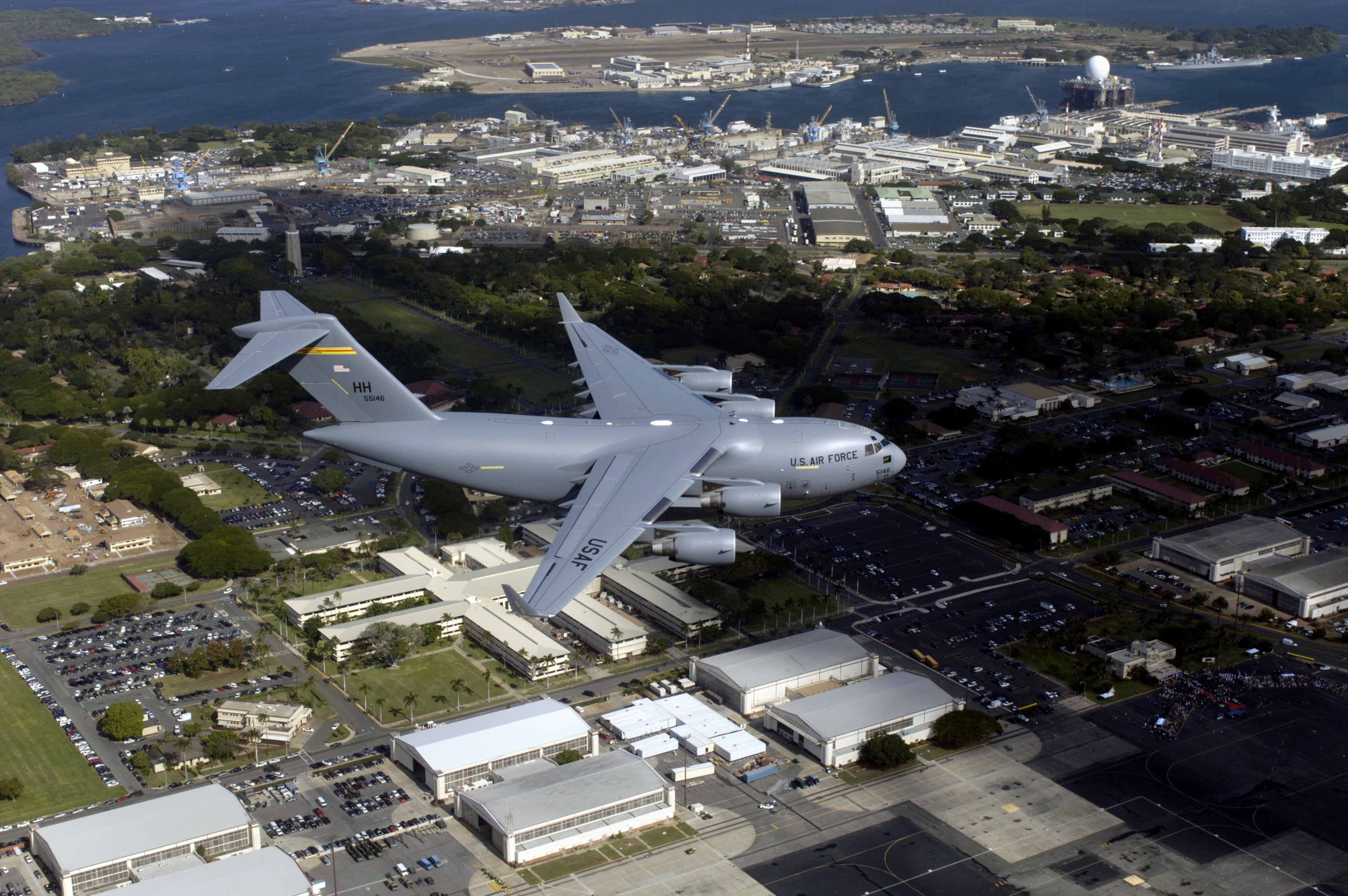 HICKAM AIR FORCE BASE, HAWAII (AFPN) -- The first Hawaii-based C-17 Globemaster III flies over Hickam Air Force Base and nearby Pearl Harbor for the arrival ceremony. Hickam is the first base outside the continental U.S. to permanently host the C-17. By the end of the year, the base will be home to eight C-17s. The 15th Airlift Wing and the Hawaii Air National Guard 154th Wing will jointly operate and maintain the aircraft.